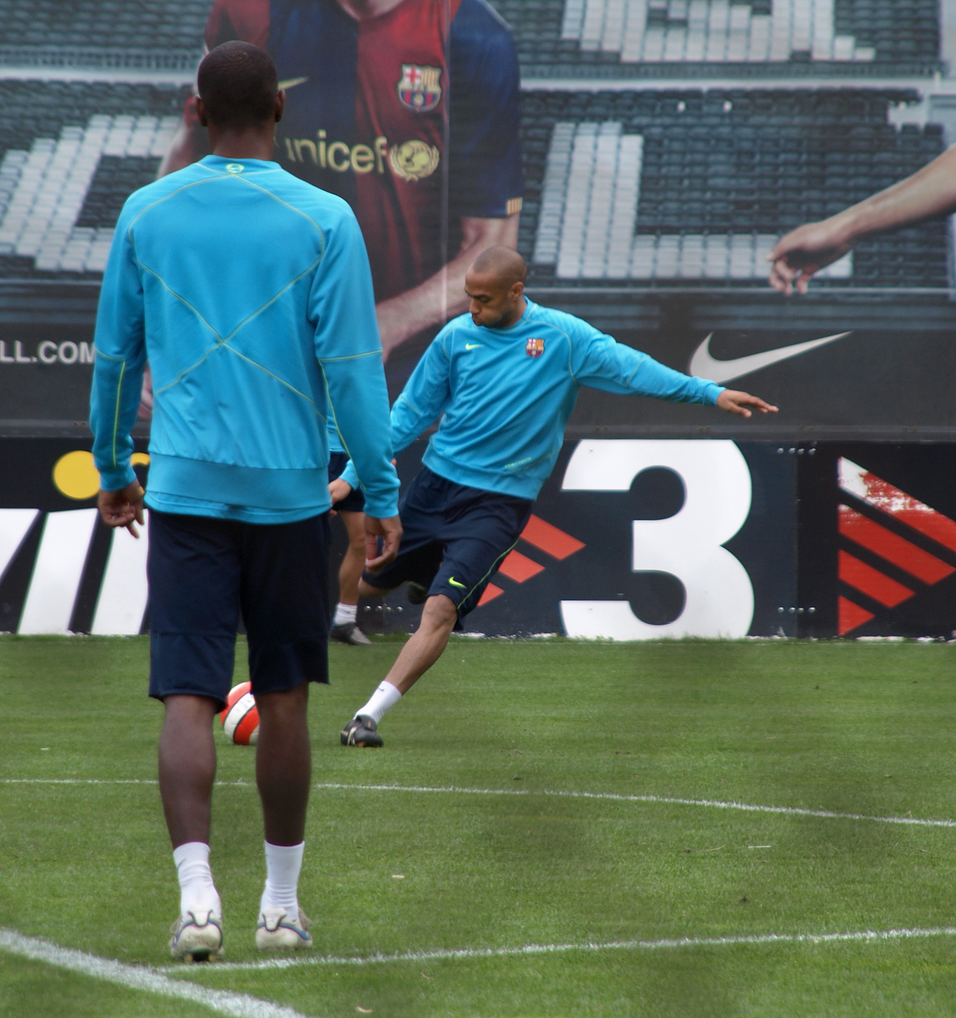 Thierry Henry is a french football player.